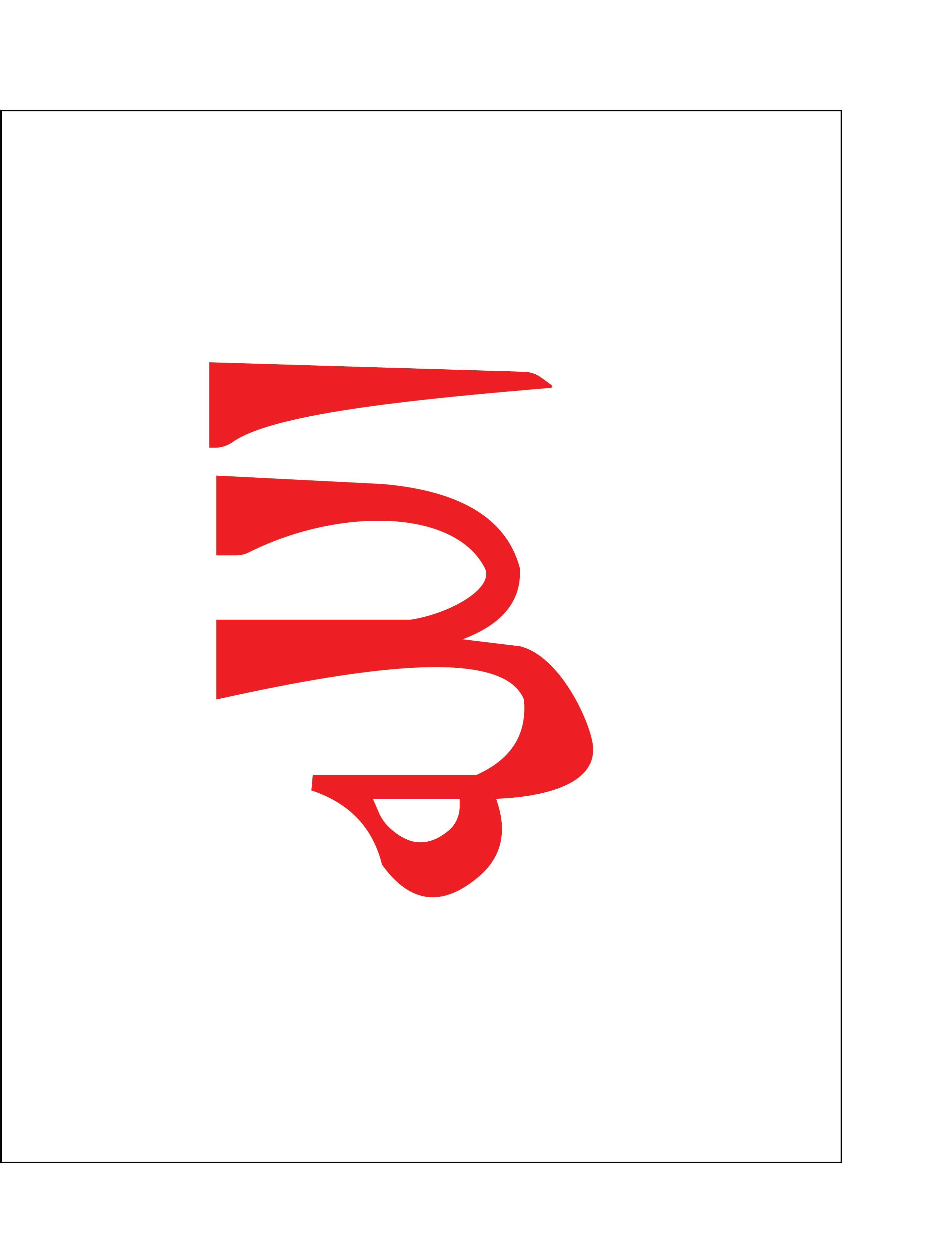 Based on David Nicolle "Armies of the Muslim Conquest" illustrations by Angus McBride. And Martin Hinds "The Banners and Battle Cries of the Arabs at Siffin" Al-Abhath XXIV